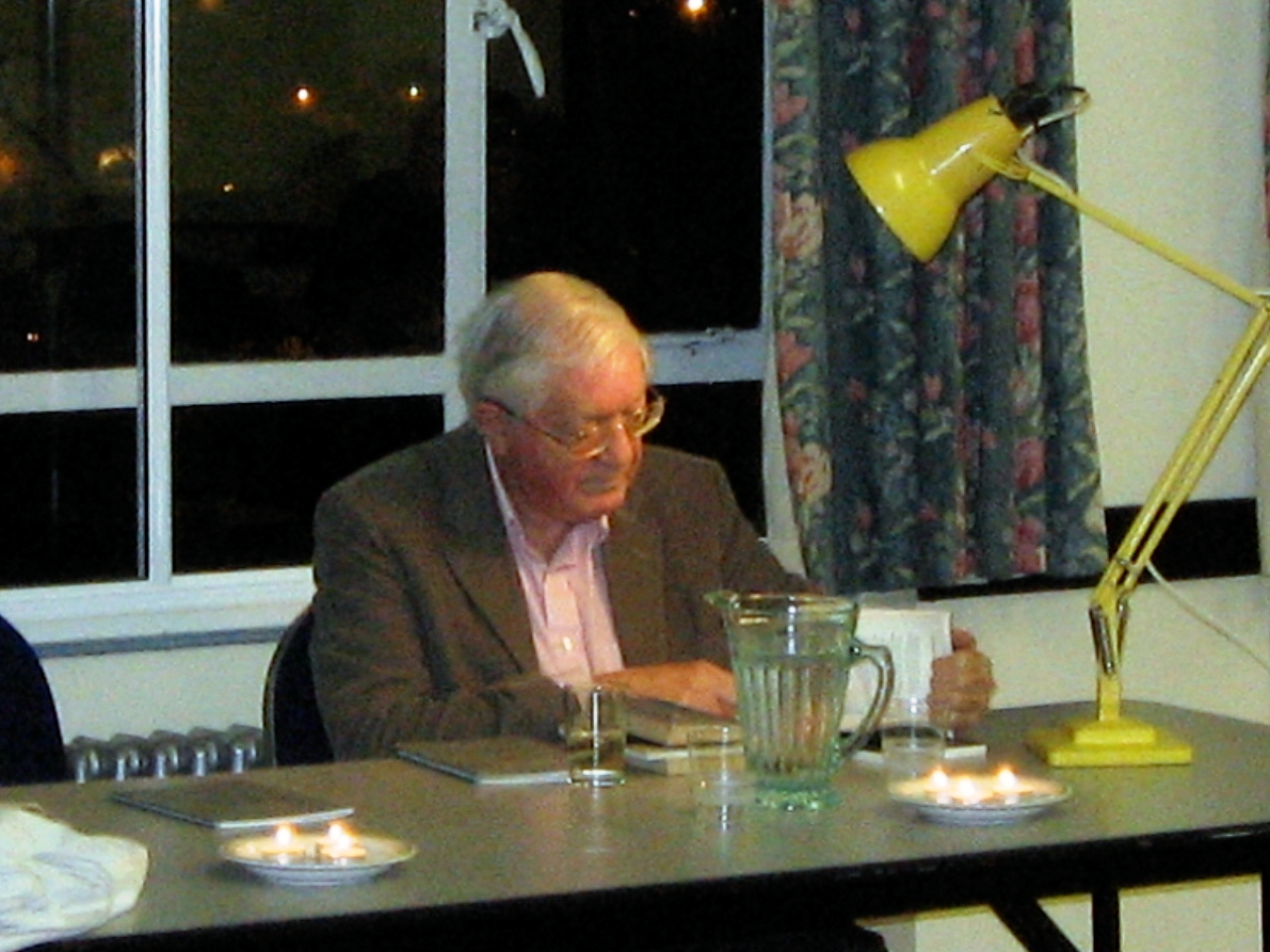 Peter Porter at Colpitts Poetry literature event Alington House, 4 North Bailey, Durham, DH1 3ET, UK For the event see e. g. [1]